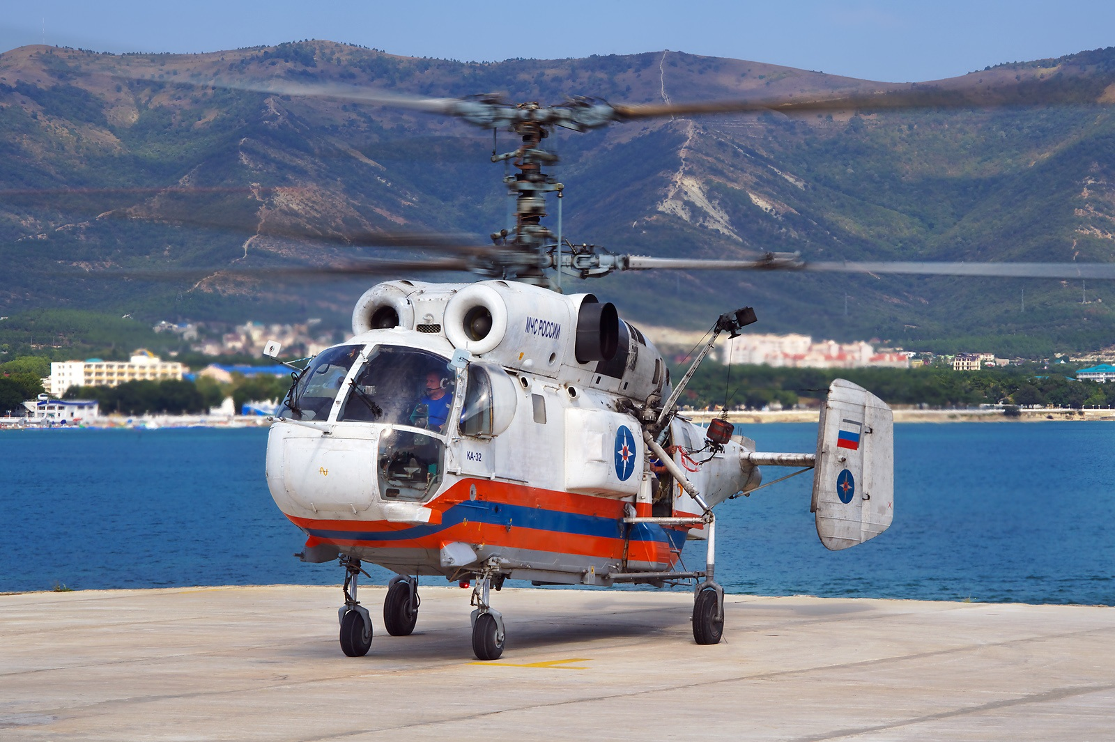 RF-32756 (cn 30008) Take-off for a demo flight